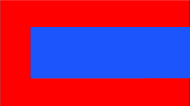 Flag of Tandjoeng (1896 renamed Indrapura)